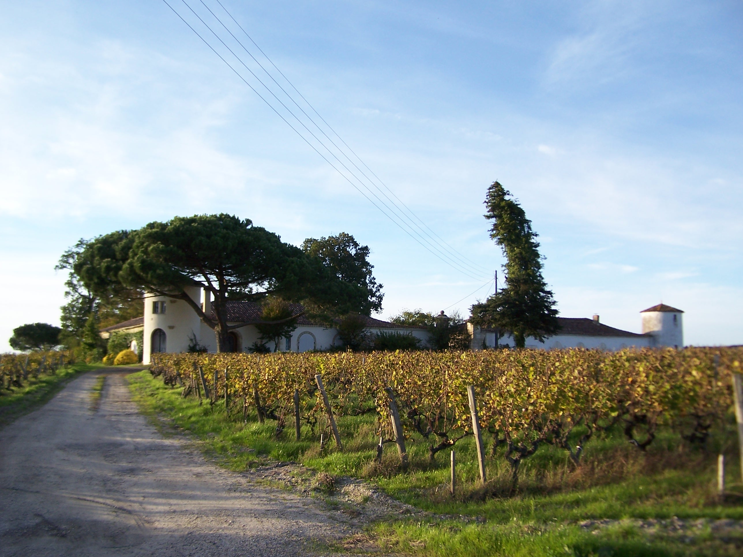 Château Lamothe in Sauternes (Gironde, France)